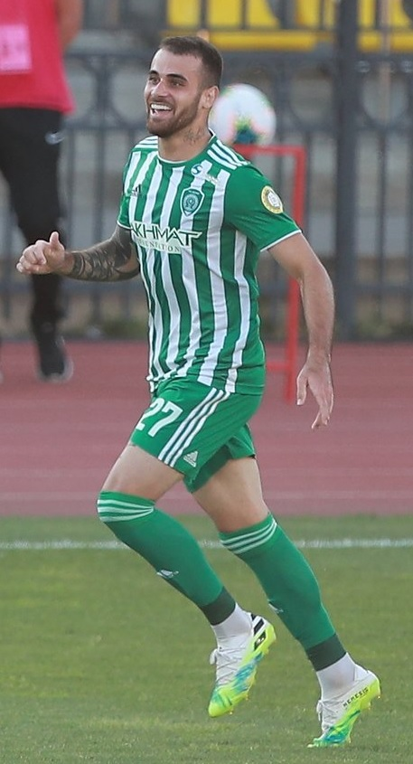 Felipe Vizeu with FC Akhmat Grozny in a game against FC Arsenal Tula.